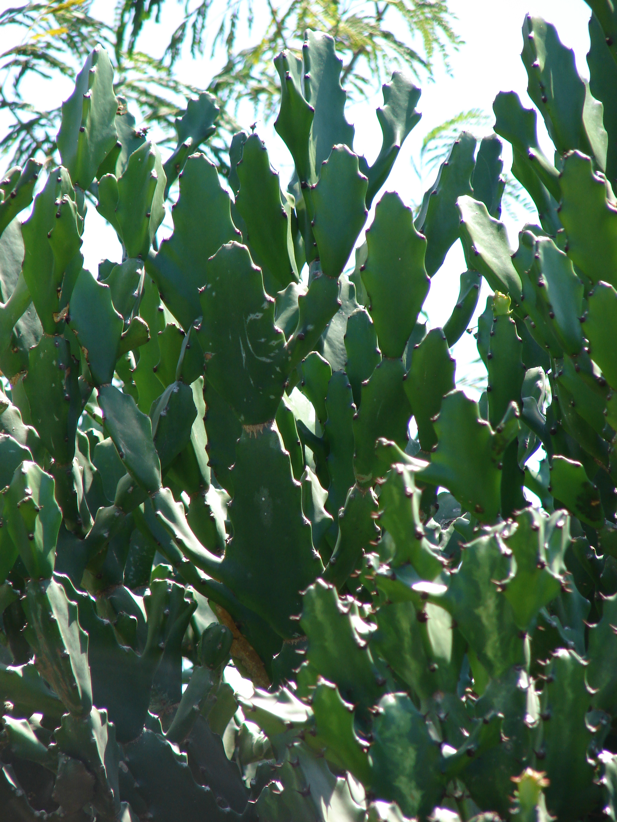 Euphorbia lactea (habit). Location: Lanai, Old Kaumalapau Hwy